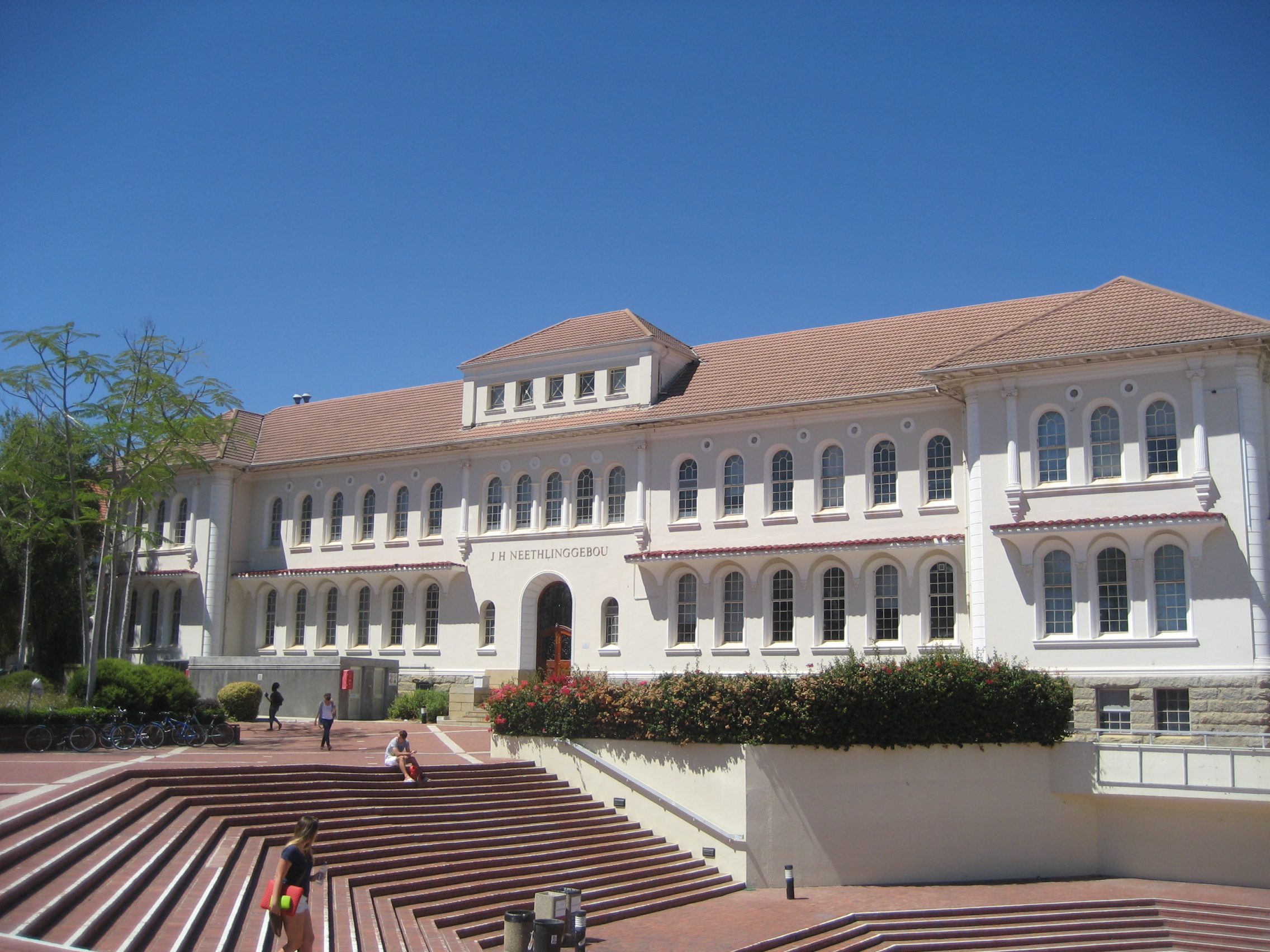 Neethling Building, Stellenbosch University (South Africa). Named after Johannes Henoch Neethling.